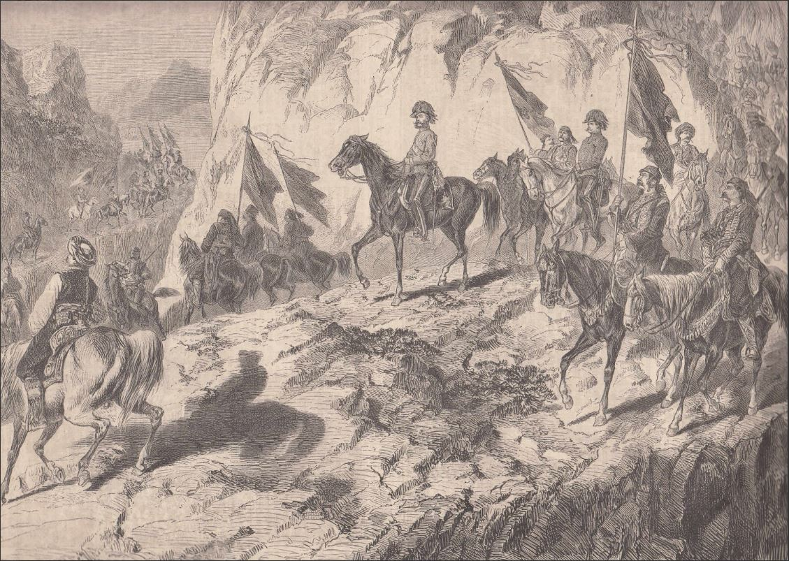 Franz Joseph, Kaiser v. Österreich 1875 in der Krivosije